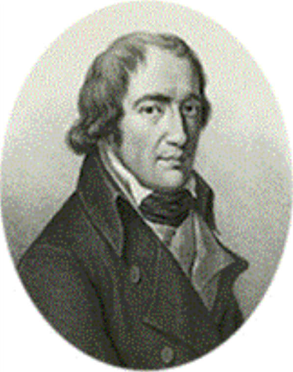 Heinrich Christian Valentiner (1767-1831)